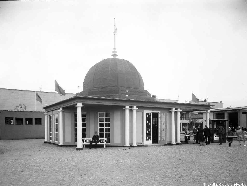 From the Örebro fair in 1928